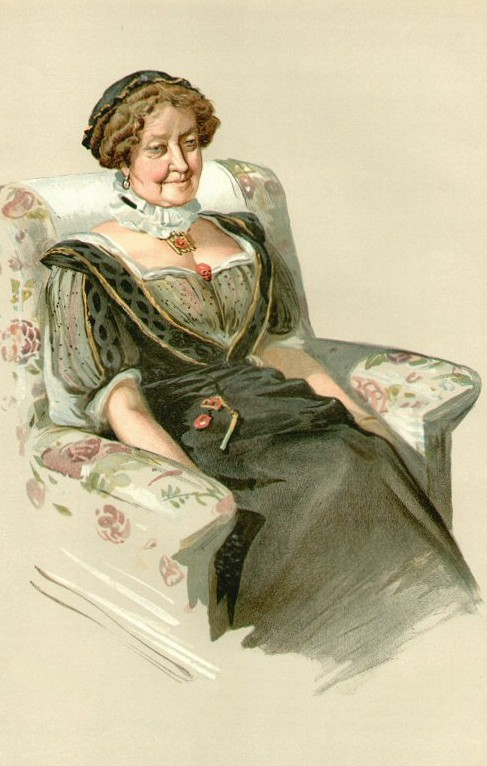 Caricature of Lady Dorothy Nevill (1826-1913), English writer, hostess, horticulturalist and plant collector.